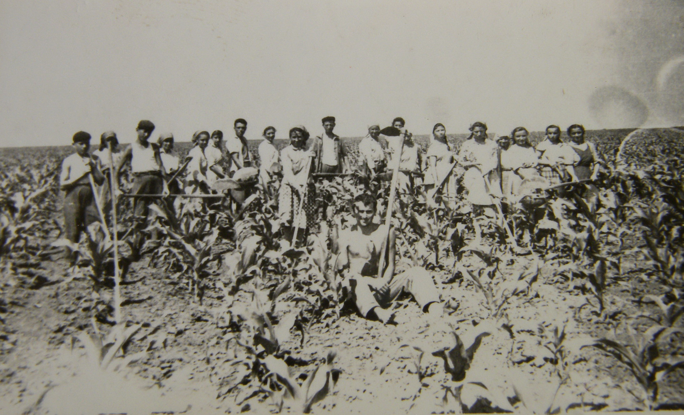 Hoeing the maize in 1960 at the CAP (Cooperativa agricolă de producție – Agricultural Cooperative for Production) of Vintilești, comune of Bordei Verde in Brăila County, Romania.